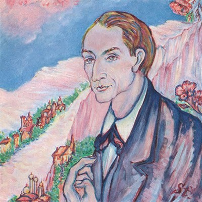 Stanislaus Stückgold - Albert Steffen. 1916